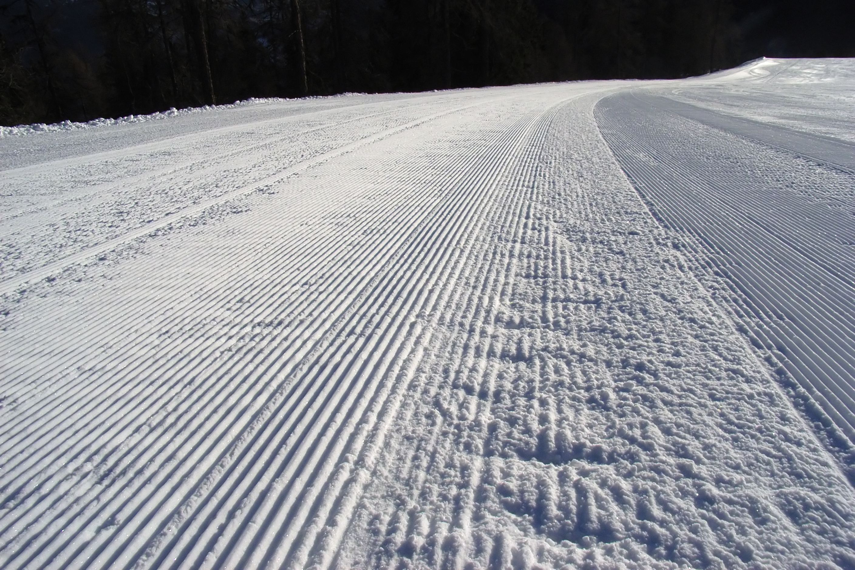 Groomed ski piste (“Olang” ski-run at the Kronplatz in South Tyrol, Italy).